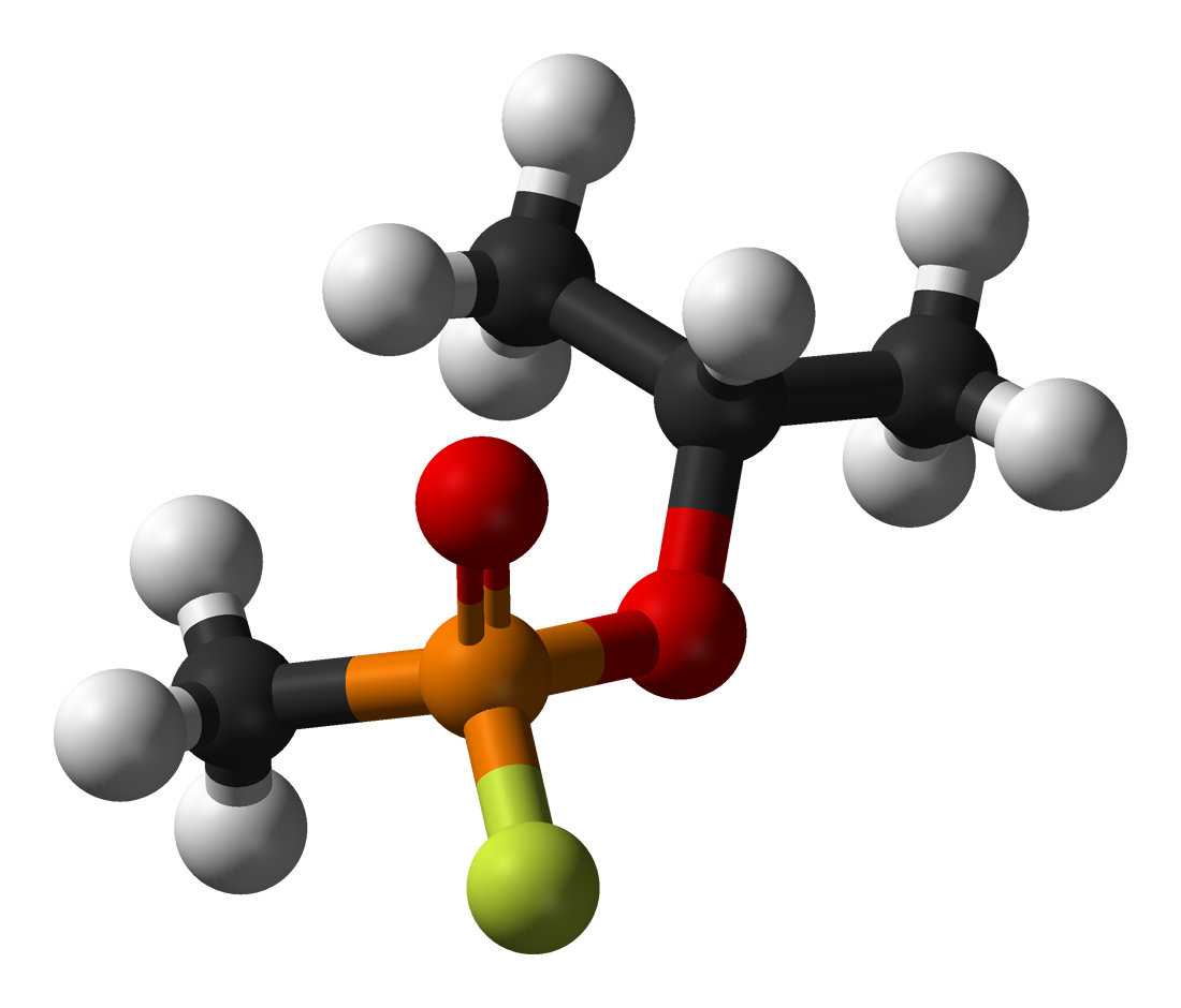 Ball-and-stick model of the (S) enantiomer of the nerve agent sarin, C4H10FO2P